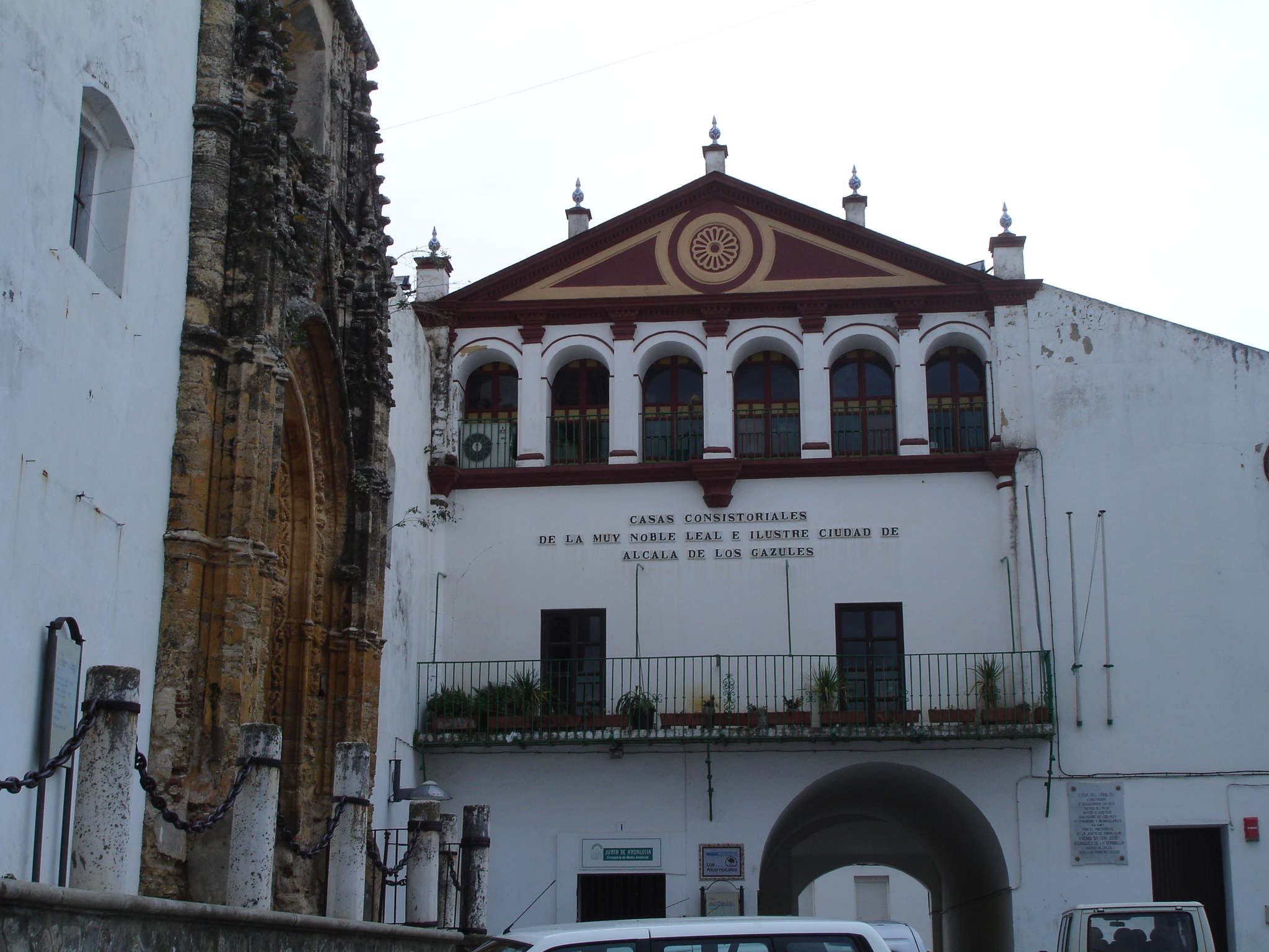 Side of the main church and Town Hall in Alcala de los Gazules, Andalusia (Spain)